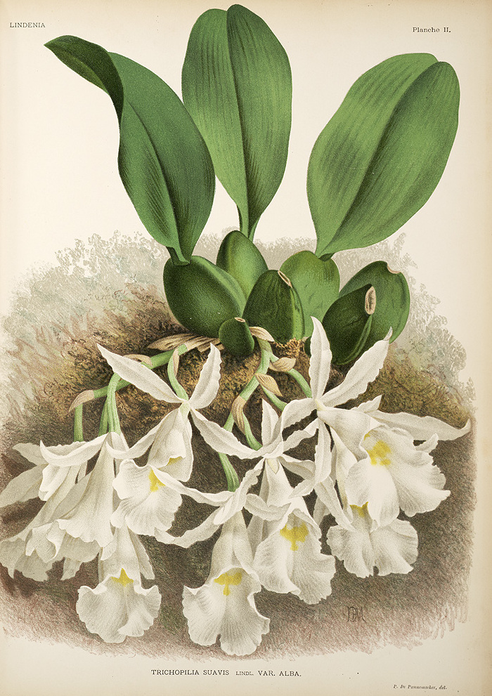 Trichopilia suavis Lindl. & Paxton (1850)